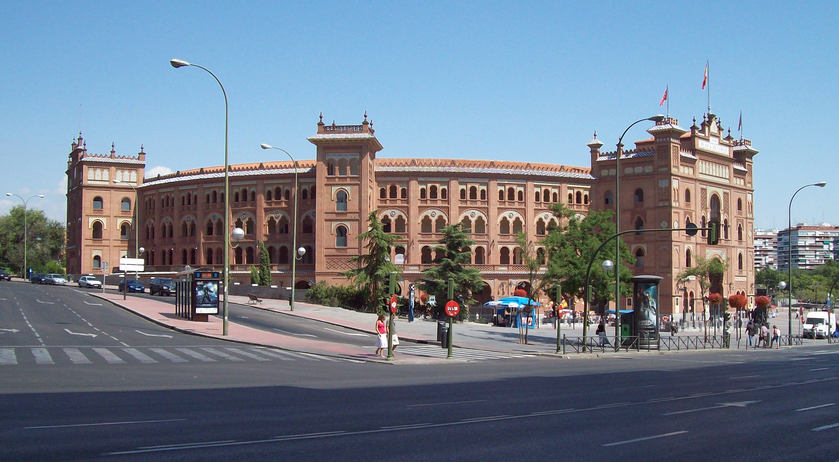 View of Las Ventas Bullring in Madrid (Spain) from Calle de Alcalá (street).